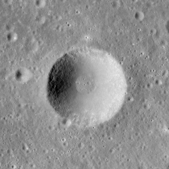 Harden crater, within Mendeleev crater, on the far side of the moon.